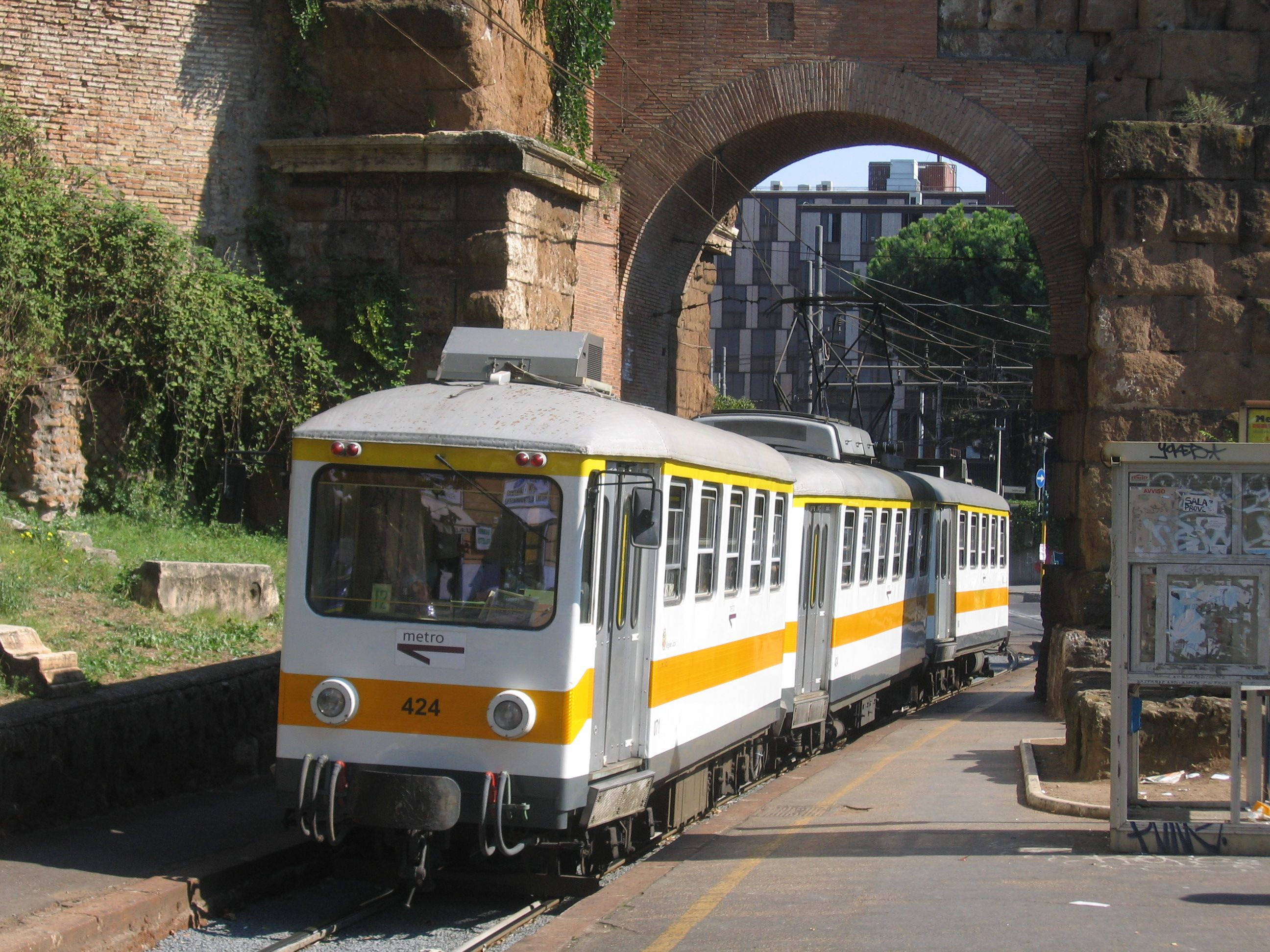 Local railway Rome Laziali - Giardinetti